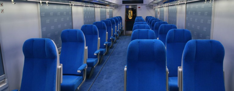 The website published details that you are allowed to use the following photographs in their database and reuse them for presentation purposes; eg rolling stock information.